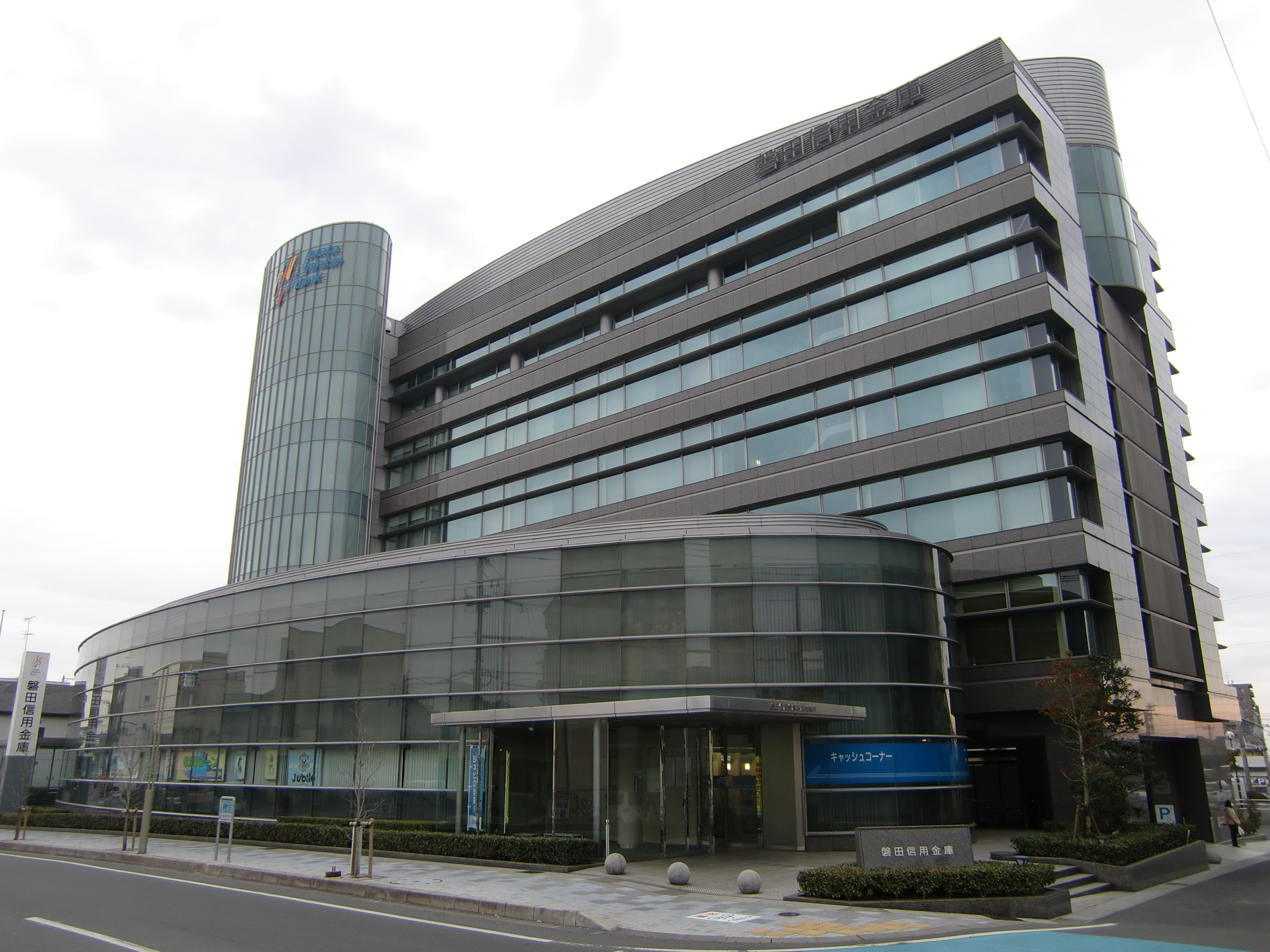 Iwata Shinkin Bank Head Store